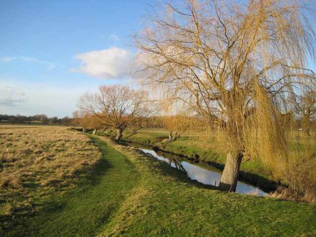 Richmond Park: Beverley Brook Viewed looking downstream from the bridge carrying the road that runs through the eastern side of the park, Beverley Brook joins the River Thames near Barnes. Richmond Park, which covers almost 1,000 hectares, is designated as a National Nature Reserve (NNR), a Site of Special Scientific Interest (SSSI) and a Special Area of Conservation (SAC).